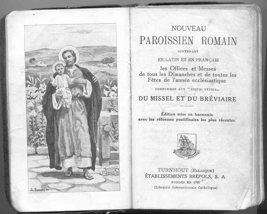 Roman Missal (editio tipica 1905)